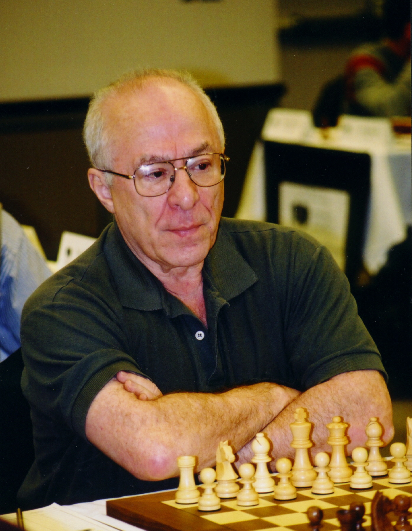 Anatoly Lein at the 2003 U.S. Chess Championships in Seattle, Washington.